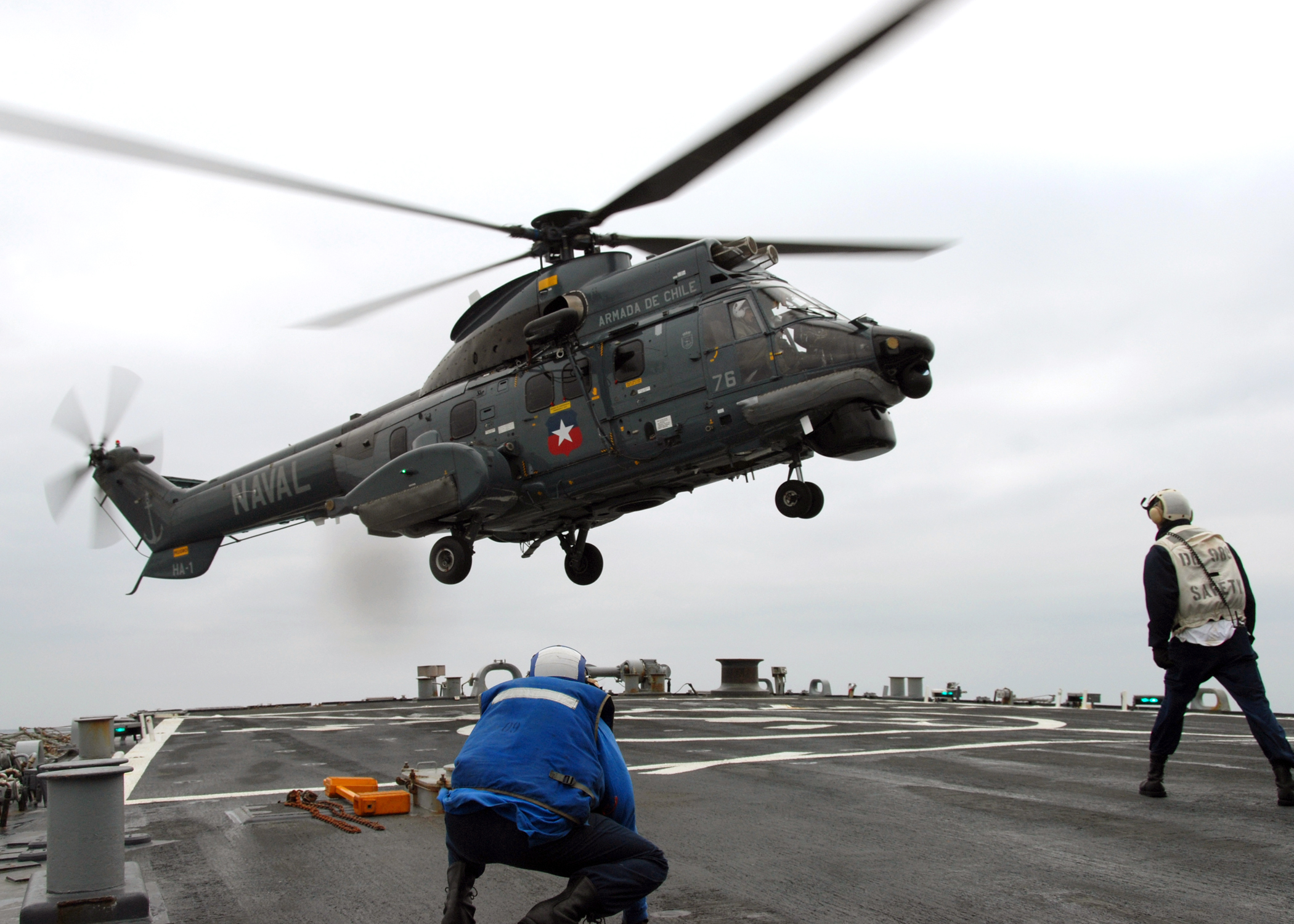 070603-N-4021H-054 PACIFIC OCEAN (June 3, 2007) - A Chilean Navy SH-32 Super Puma helicopter prepares to land on the flight deck of USS Mitscher (DDG 57) while engaged in multinational flight operations during the Teamwork South phase of Partnership of the Americas (POA) 2007. POA is focusing on enhancing relationships with partner nations through a variety of exercises and events at sea and on shore throughout South America, Latin America, and the Caribbean.